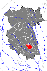 This map shows the area of the Gemeinde (municipality) Buch-Geiseldorf in the Bezirk (district) Hartberg, Styria, Austria.